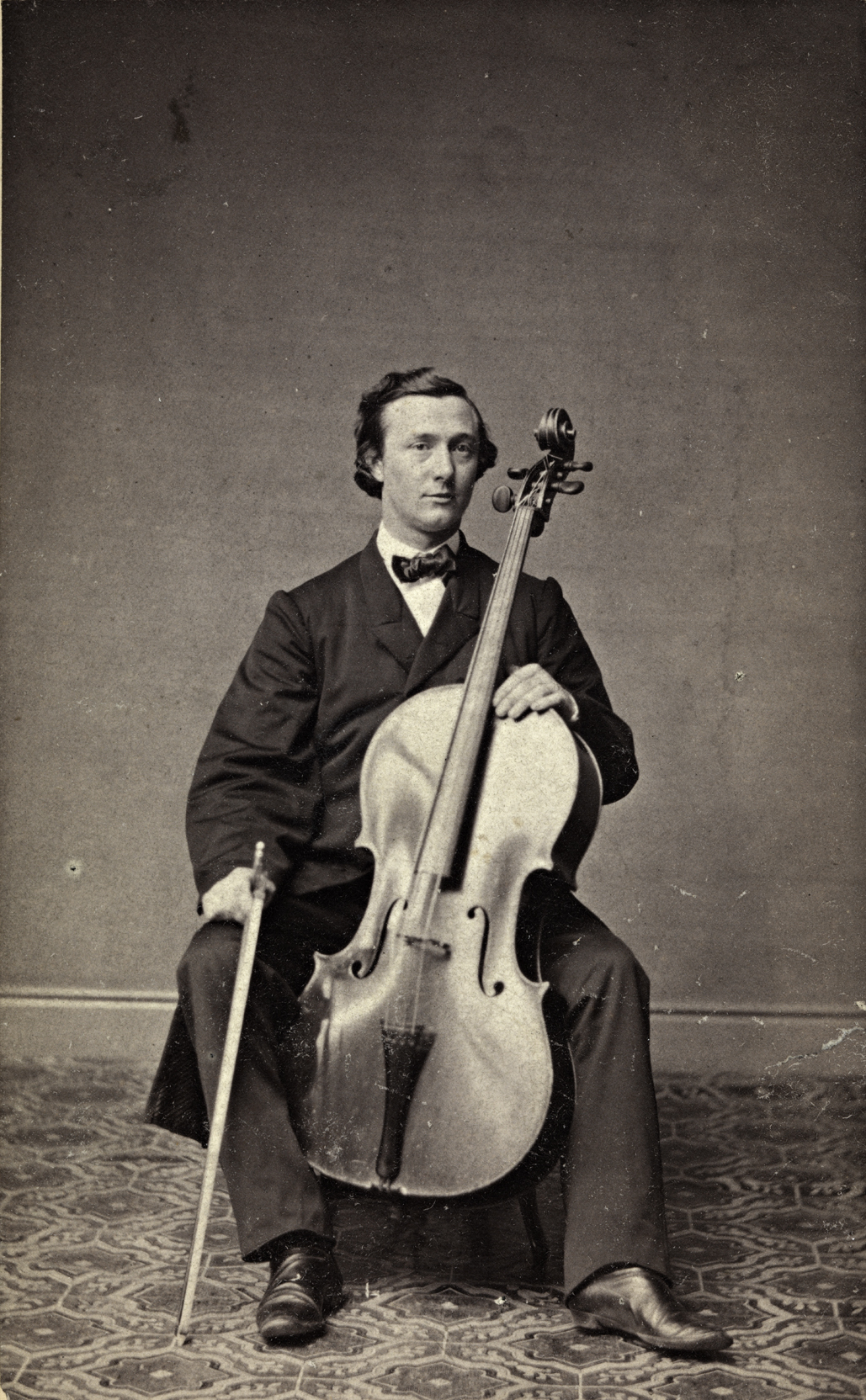 Tittel / Title: Portrett av Johan Hennum (1836-1894) Motiv / Motif: Visittkort / Carte de visite. Hennum var dirigent og cellist. Dato / Date: ukjent / unknown Fotograf / Photographer: Claus Knudsen (Christiania) Sted / Place: Oslo Eier / Owner Institution: Nasjonalbiblioteket / National Library of Norway Lenke / Link: Bildesignatur / Image Number: blds_05047